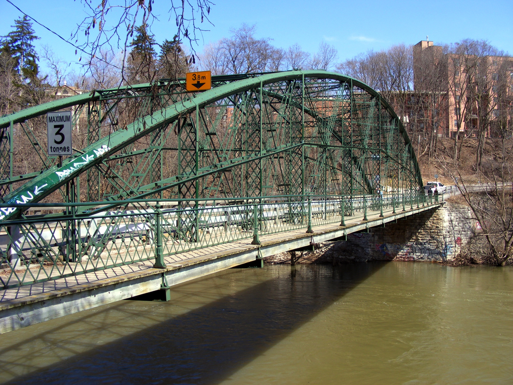 Blackfriars Bridge in London, Ontario. Date: April 6, 2008